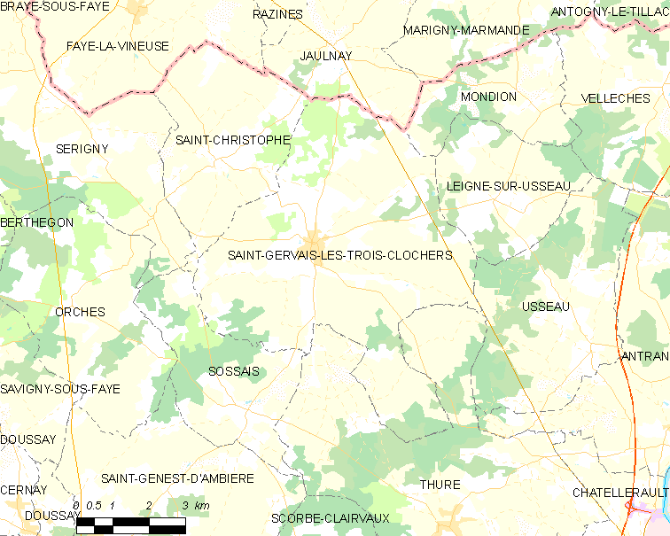 Map of French municipality Saint-Gervais-les-Trois-Clochers